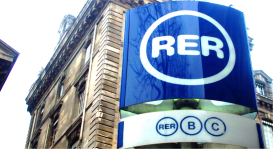 RER logo near St Michel RER station in Paris.